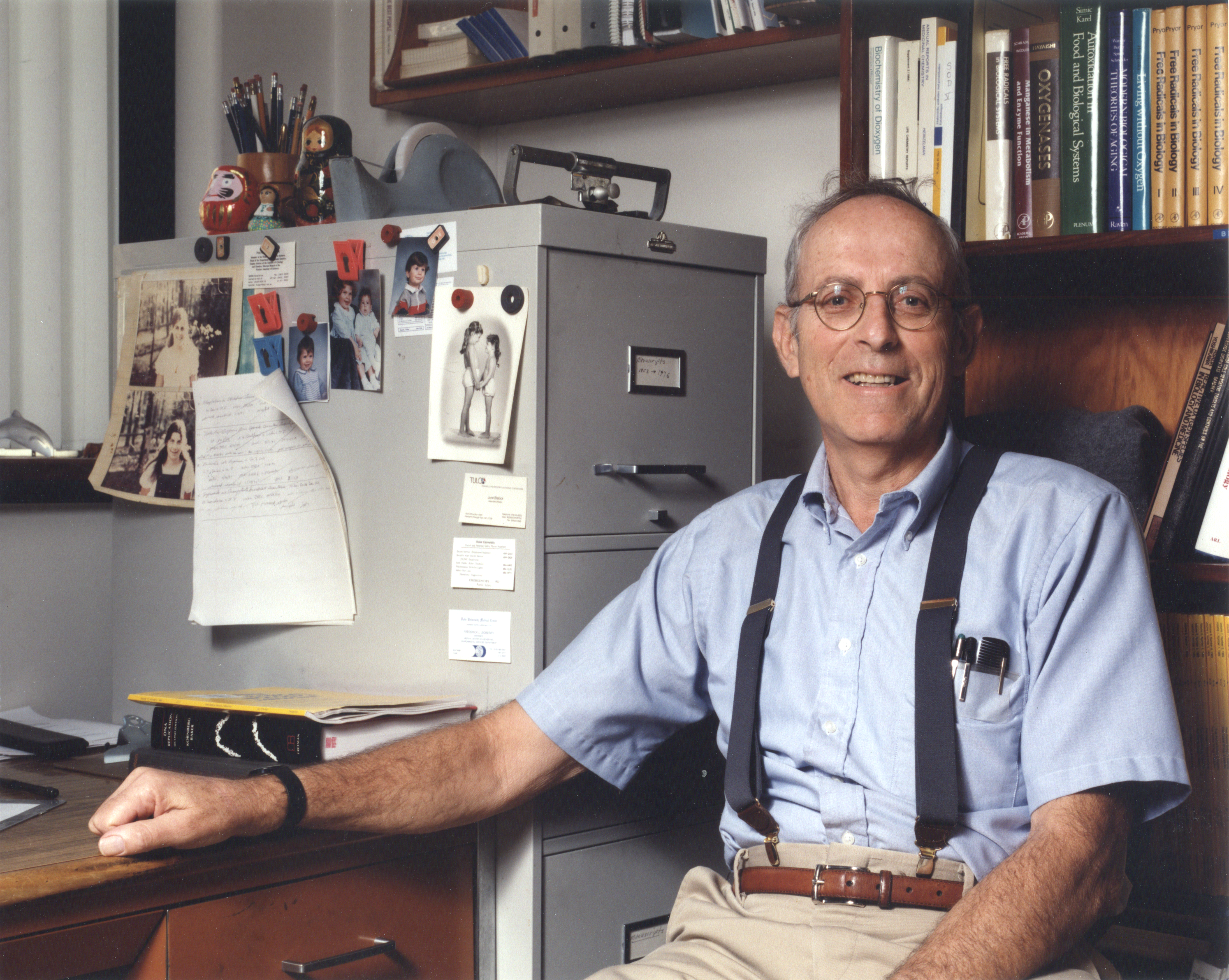 Color photo of Professor of Biochemistry Irwin Fridovich at the desk in his office at Duke University in 1994.